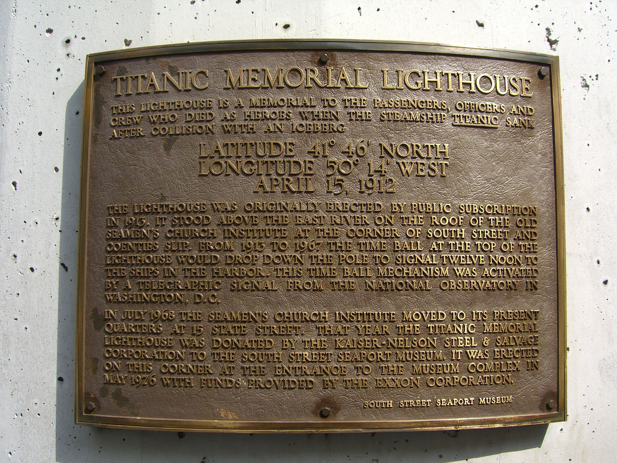 The commemorative plaque on the Titanic Memorial Lighthouse at the corner of Fulton Street and Pearl Street in Lower Manhattan on April 15, 2012, the 100th anniversary of the sinking of the RMS Titanic. This photo was created by Luigi Novi. It is not in the public domain, and use of this file outside of the licensing terms is a copyright violation.